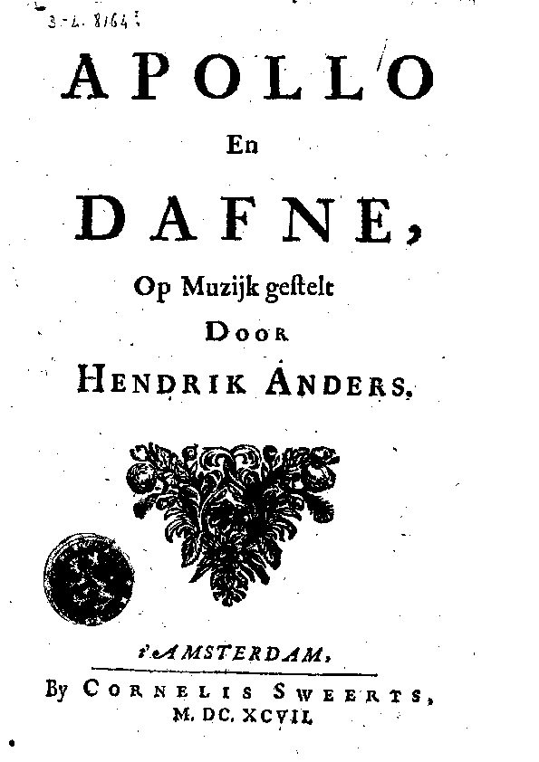 Libretto (1697) of the opera "Apollo en Dafne" by composer Hendrik Anders and writer Cornelis Sweerts